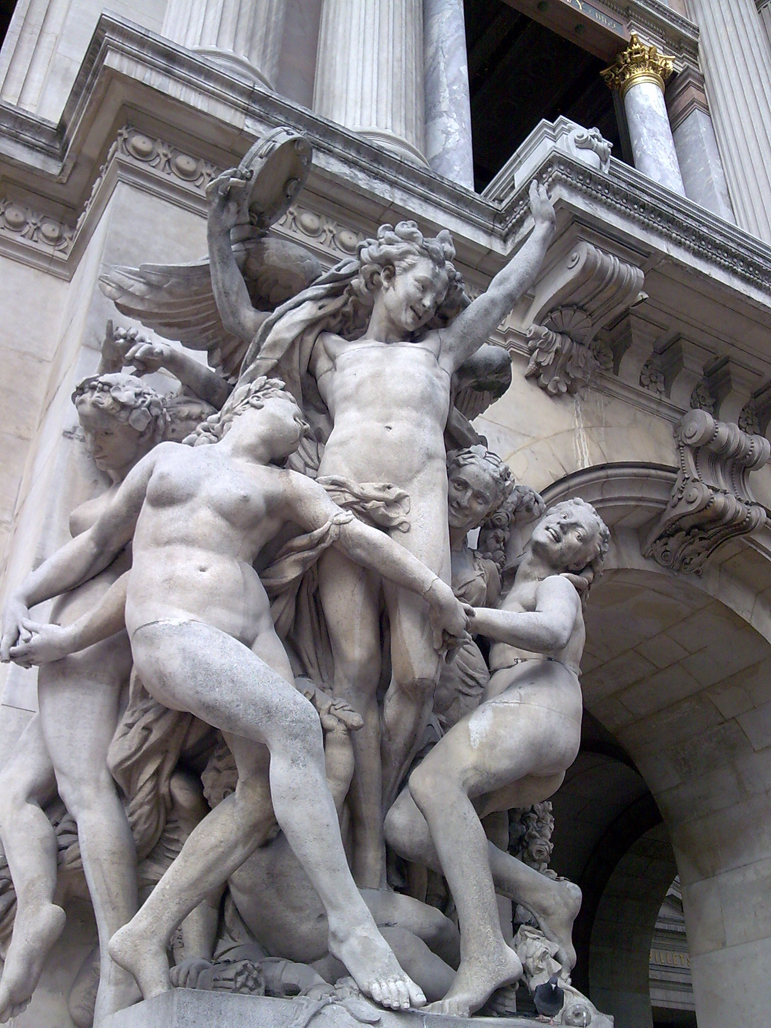 La danse (“The Dance”) by Jean-Baptiste Carpeaux, created for the façade of the Palais Garnier, Paris. This is a copy by Jean Juge made in 1963; the original is displayed in the Musée d'Orsay, Paris.